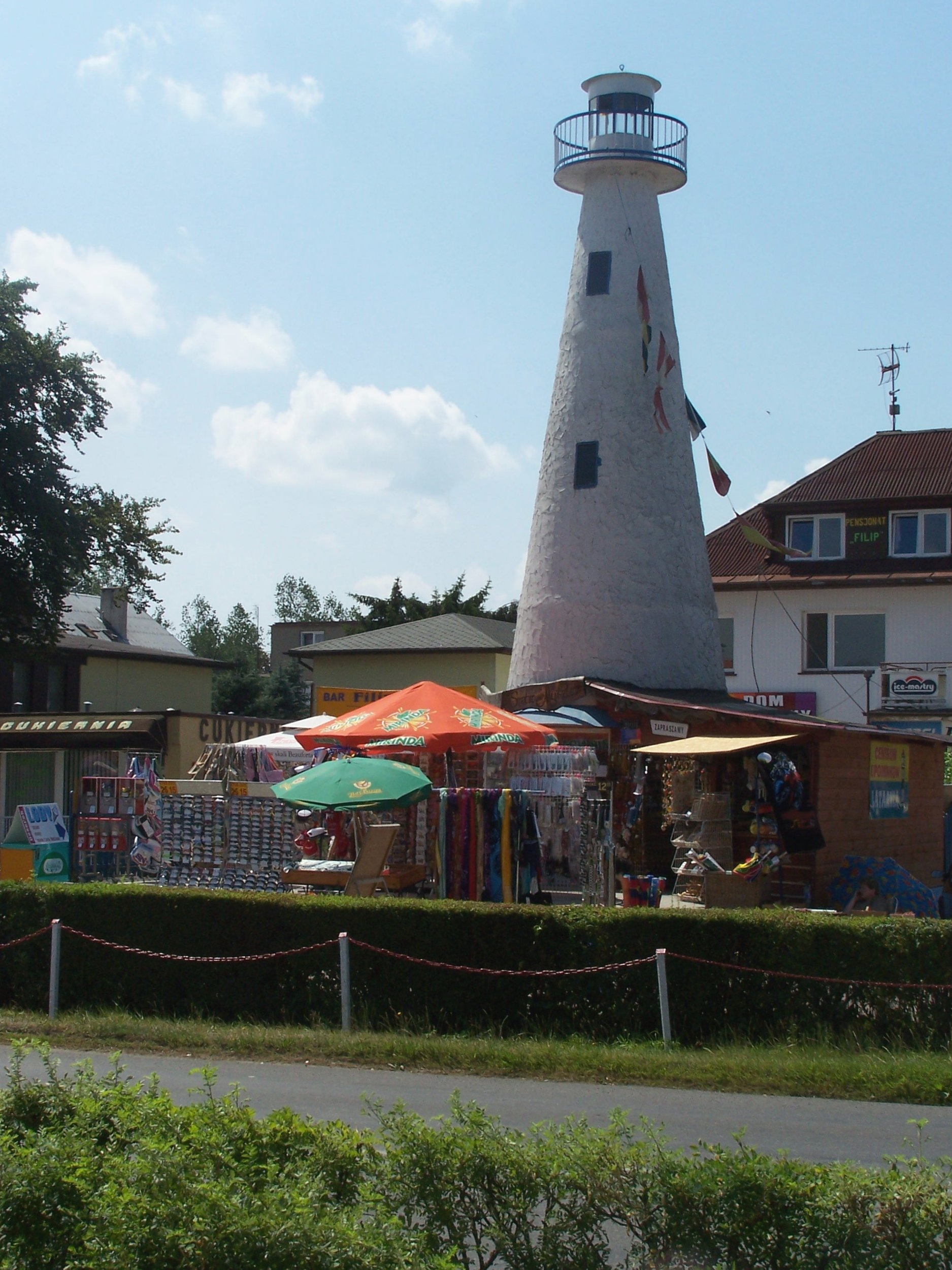 Dziwnówek, Poland - Town center, characteristic lighthouse shaped souvenir shop